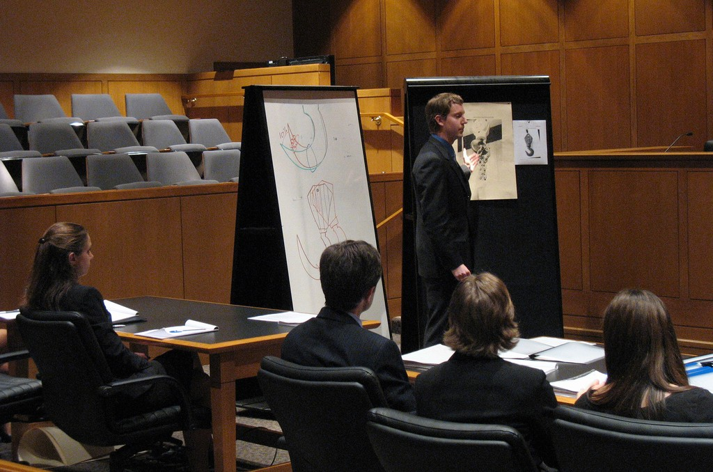 A student delivers a closing argument during a mock trial competition.